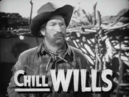 Chill Wills in Apache Trail, by Richard Thorpe (1942)